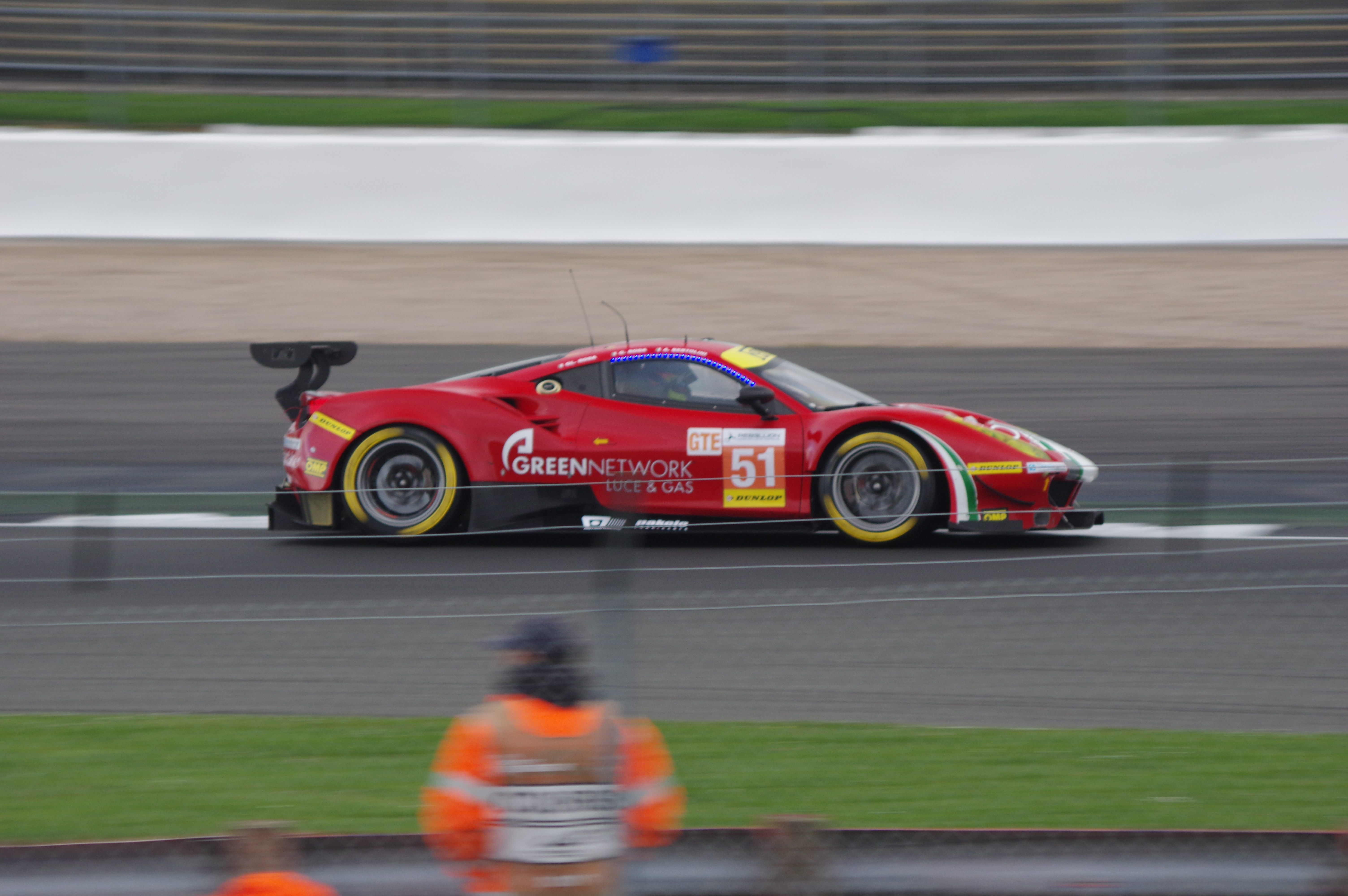 2017 4 Hours of Silverstone - Spirit of Race's Ferrari 488 GTE n°51 Driven by Gianluca Roda, Giorgio Roda and Andrea Bertolini